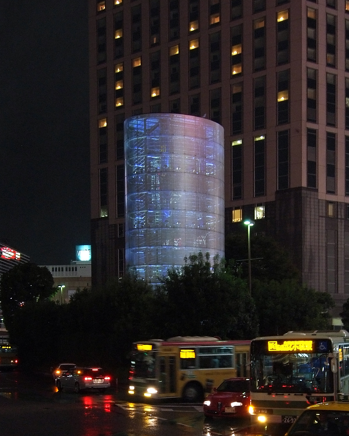 Tower of Winds, at Yokohama Kanagawa Japan, design by Toyo Ito in 1986.